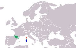 Distribution of Calotriton asper (green), Euproctus montanus (red) and Euproctus platycephalus (blue), based on Nöllert/Nöllert: "Die Amphibien Europas"